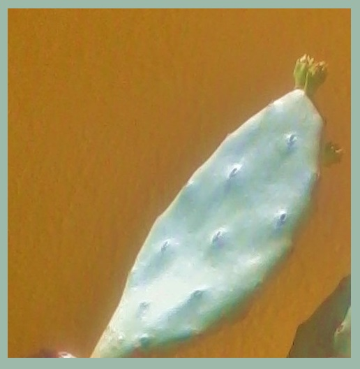 cactus